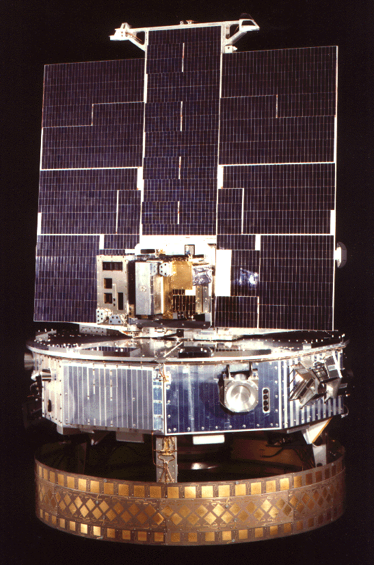 A picture of the United States P78-1 satellite